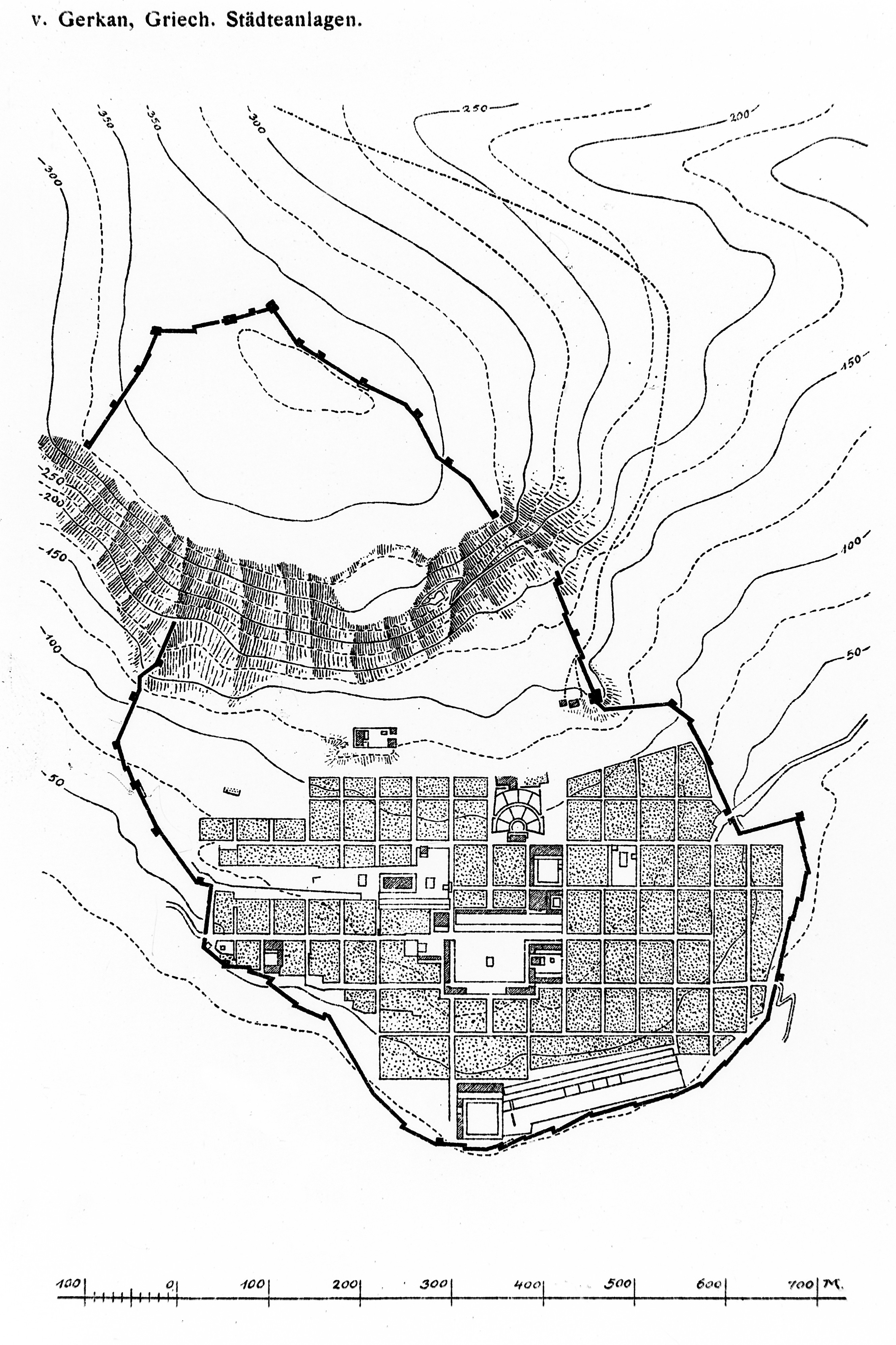 Plan of Priene Wellcome Images